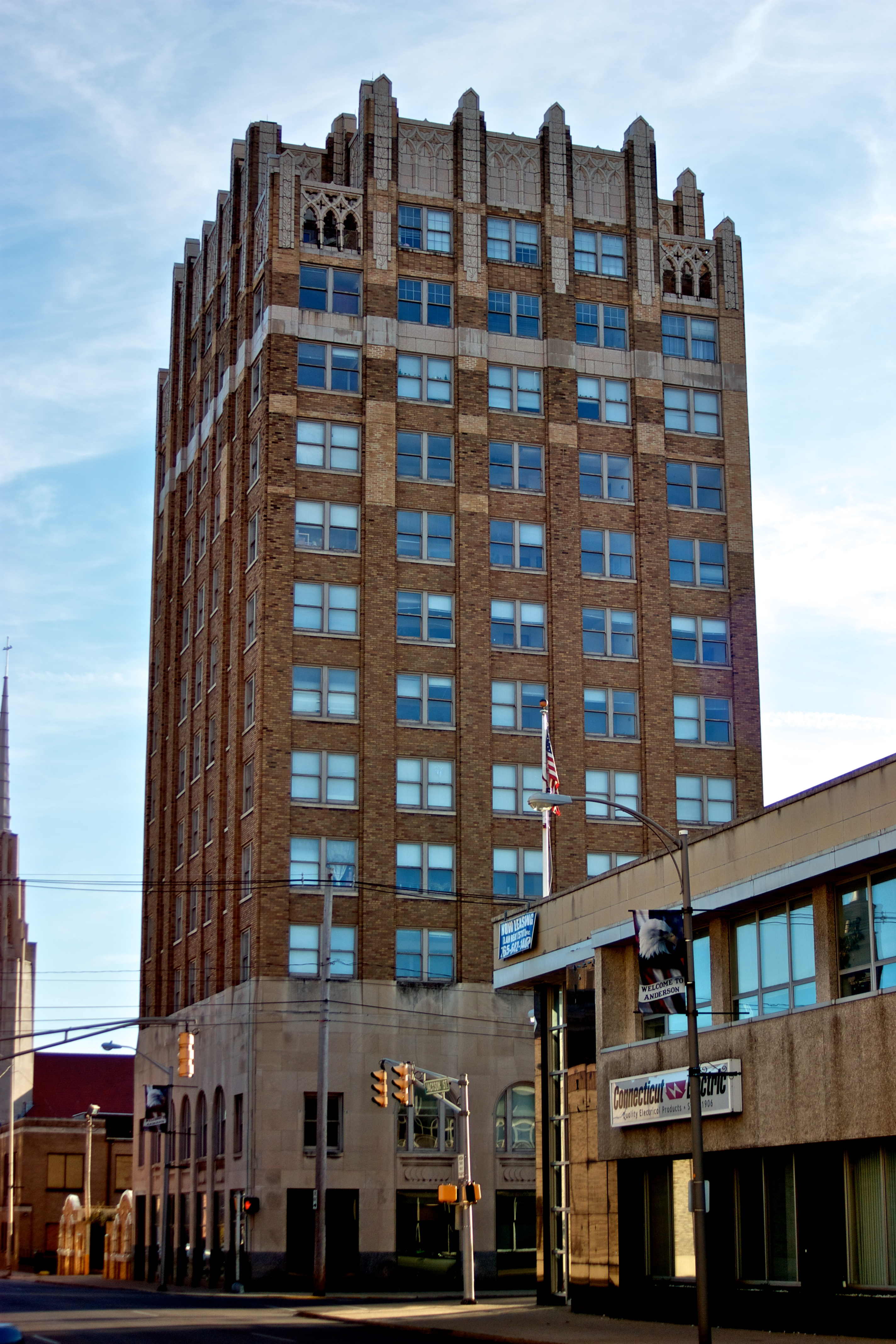 This is a photo of the Tower Hotel(Tower Place) building in downtown Anderson, Indiana.